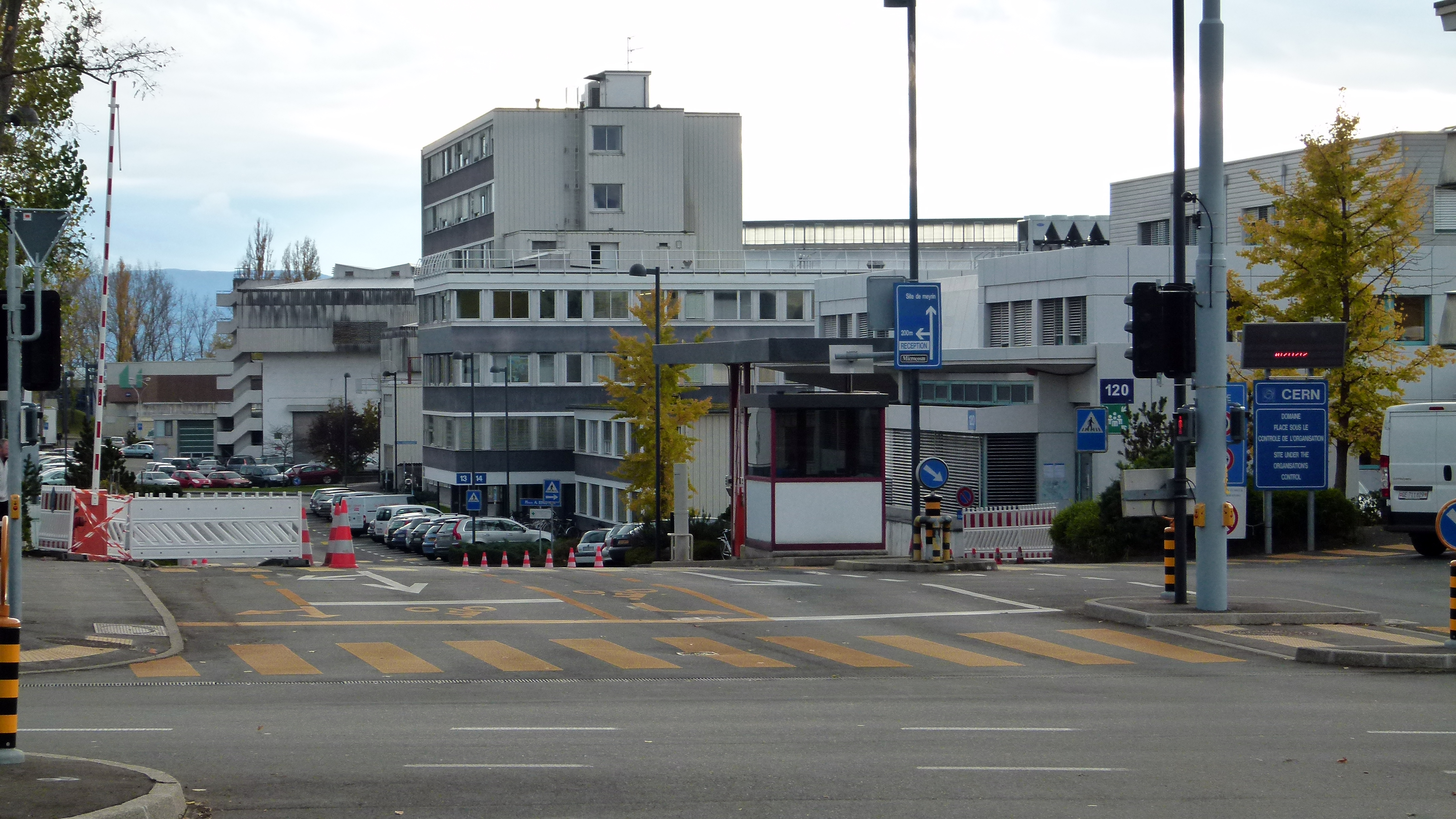 Main entrance of the CERN in Meyrin near Geneve, Switzerland